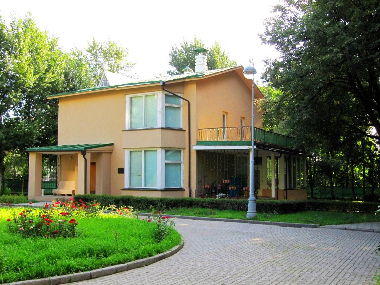 The Sergei Korolyov House (now a Museum) in Moscow.